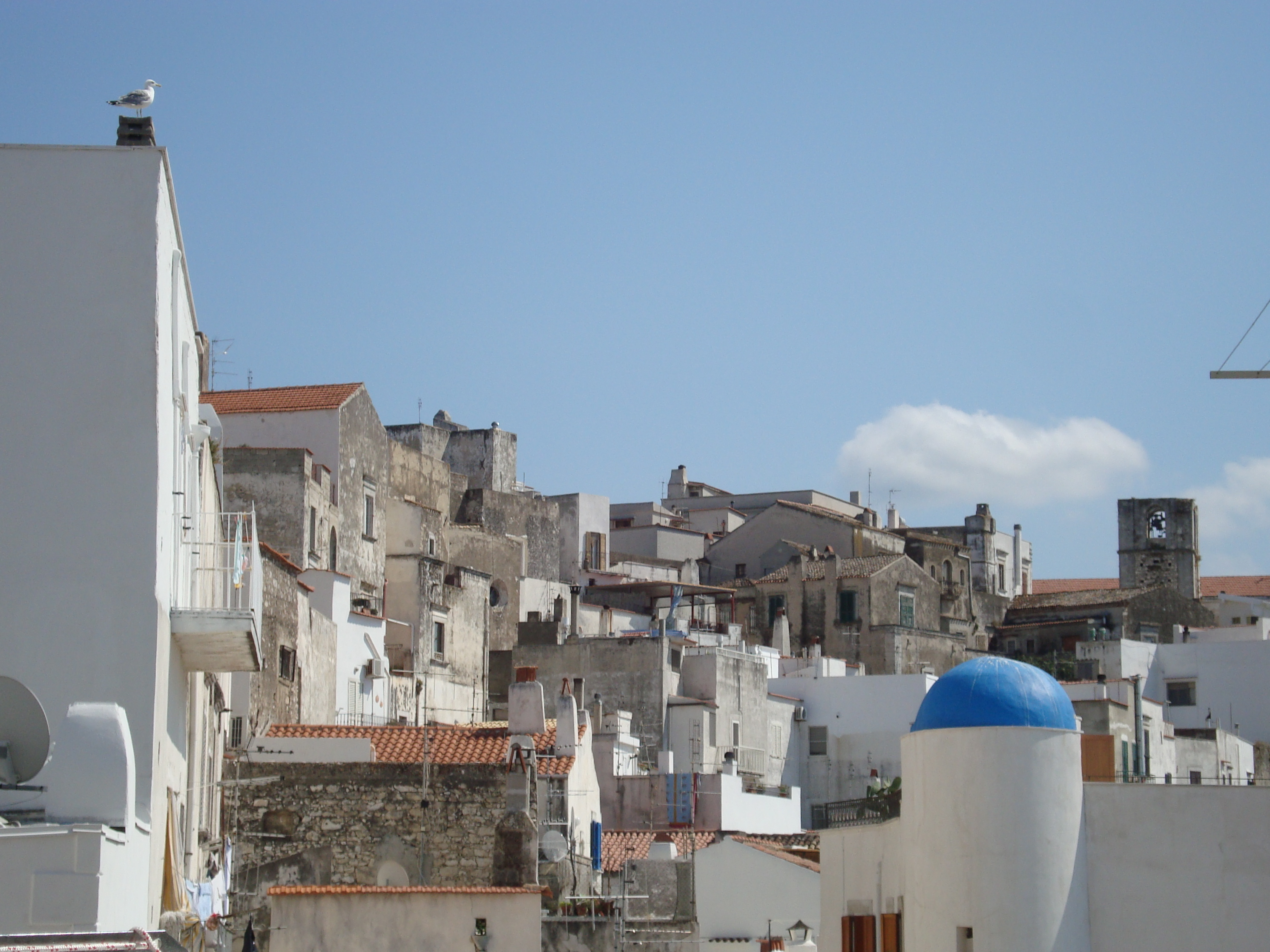 View of Peschini in Apulia